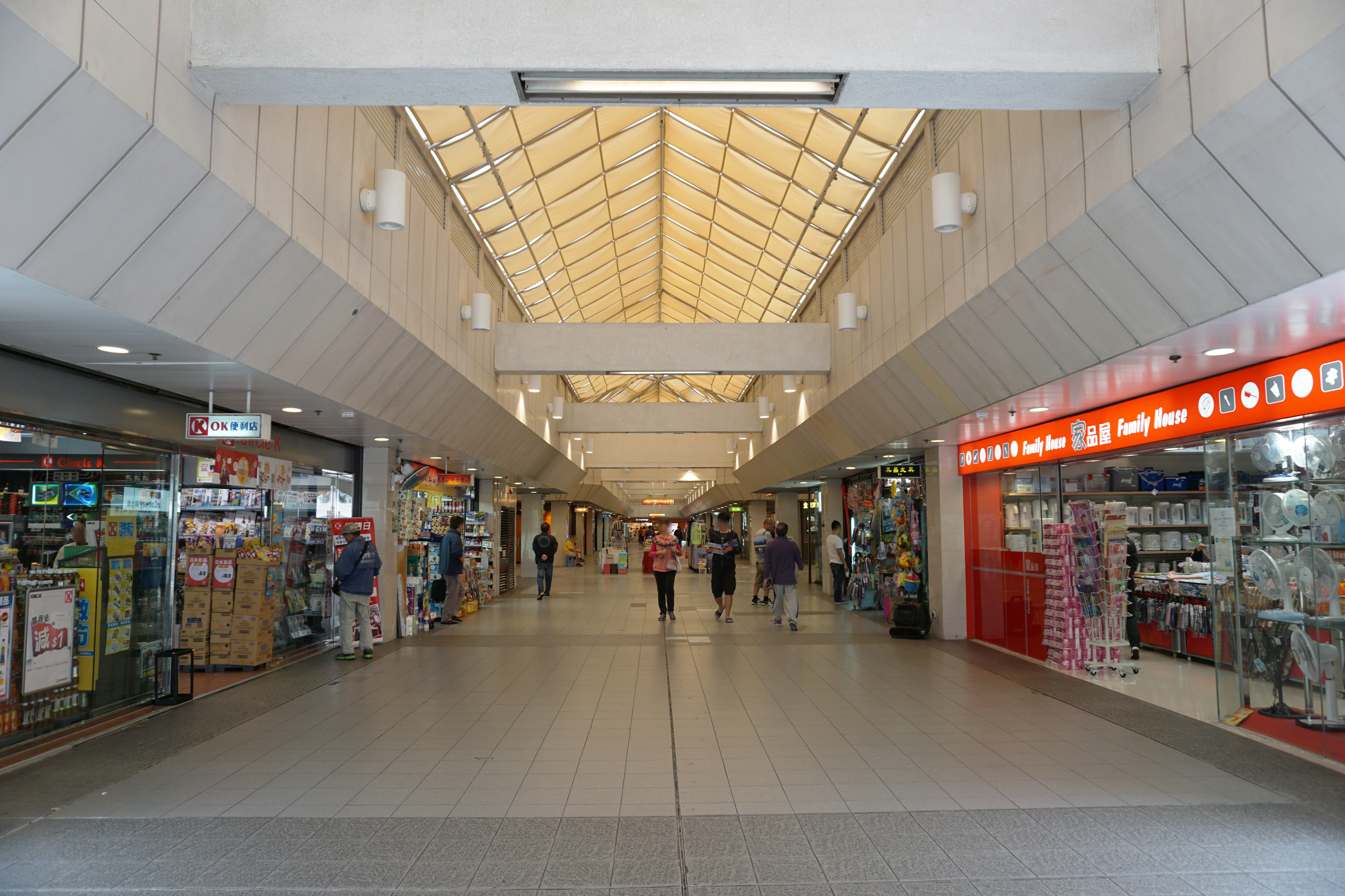 Wan Tau Tong Shopping Centre in Tai Po, Hong Kong.